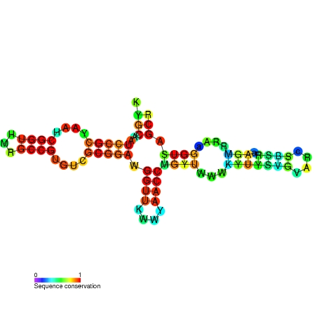 Secondary structure image for sucA non coding RNA (RF01070). Nucleotide colouring indicates sequence conservation between the members of this family.